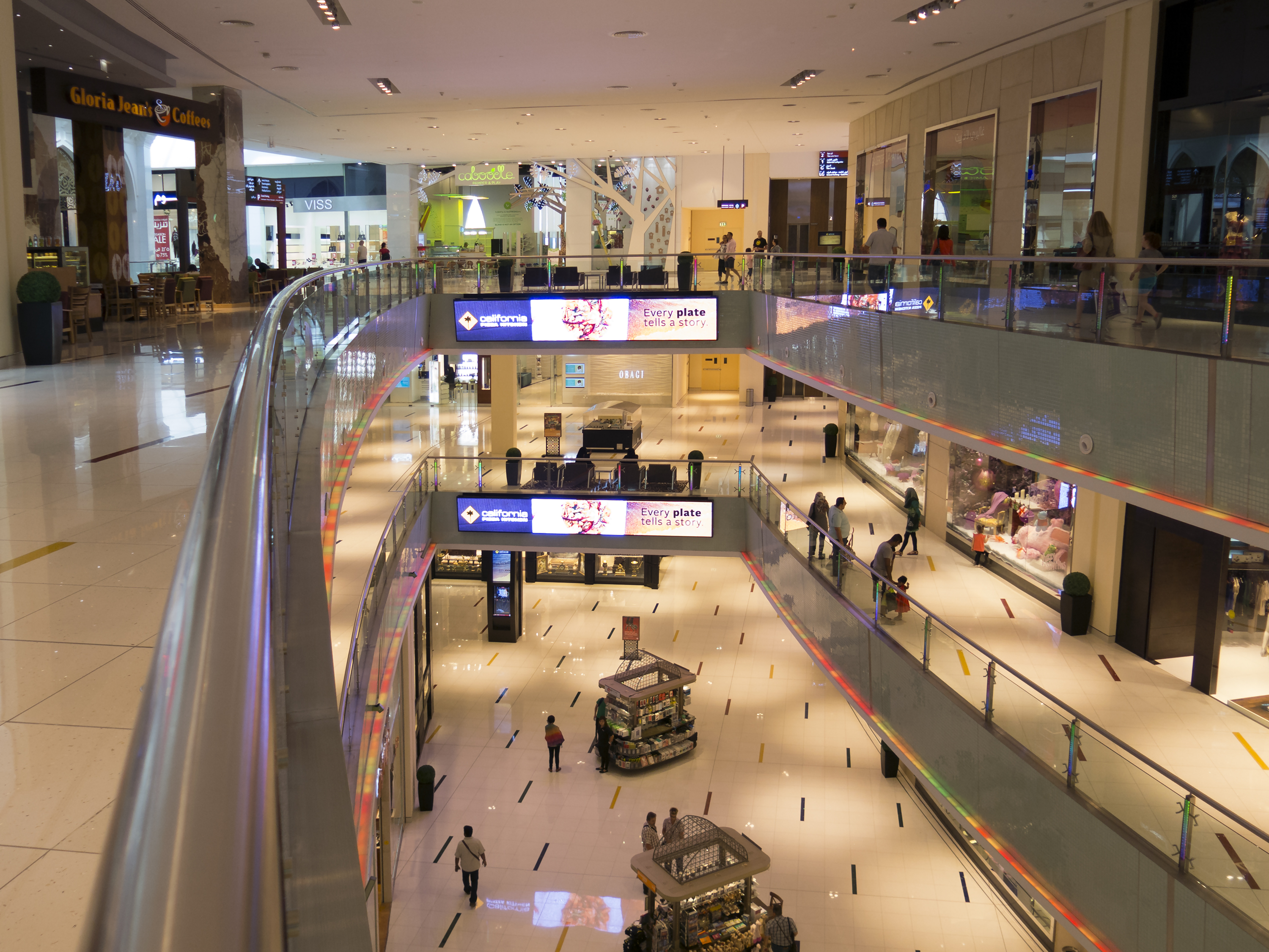 The Dubai Mall (Arabic: دبي مول) is a shopping mall in Dubai and the largest mall in the world by total area. It is the nineteenth largest shopping mall in the world by gross leasable area. Located in Dubai, United Arab Emirates, it is part of the 20-billion-dollar Downtown complex, and includes 1,200 shops. In 2011 it was the most visited building on the planet, attracting over 54 million visitors. Access to the mall is provided via Doha Street, rebuilt as a double-decker road in April 2009.